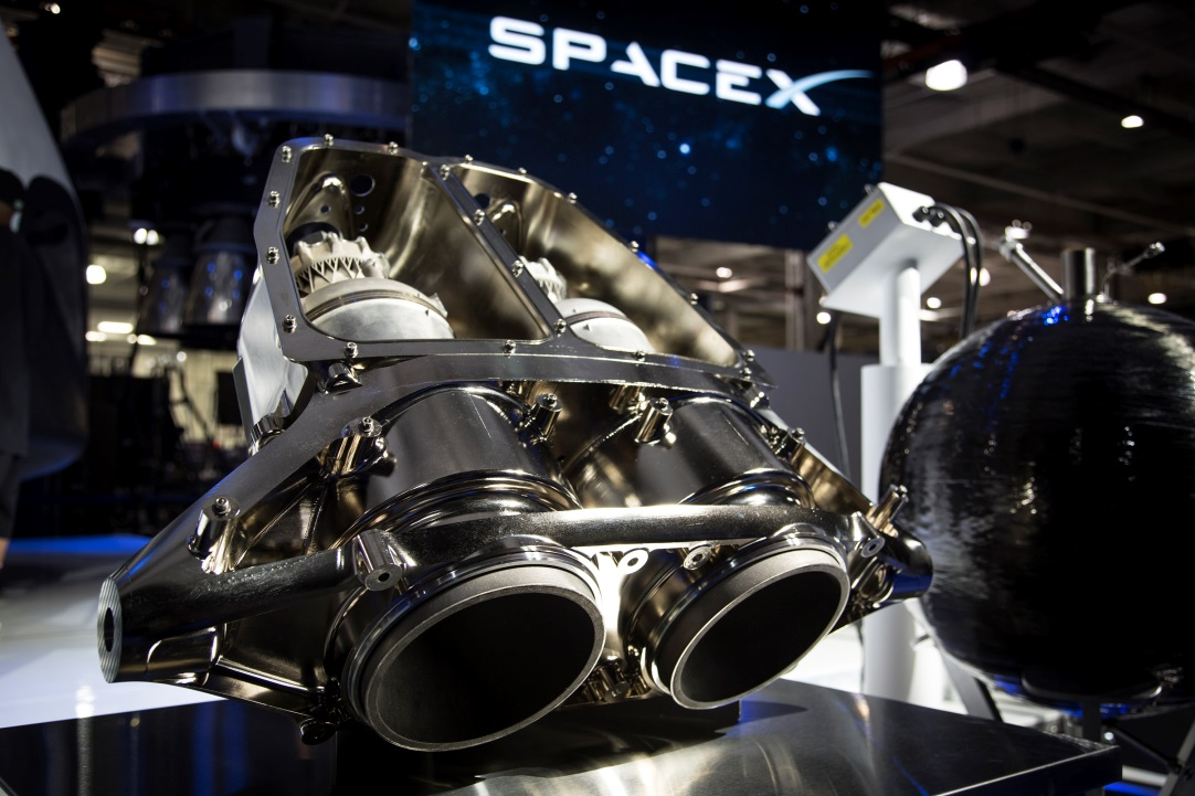 The SuperDraco is an advanced version of the Draco engines used by SpaceX’s Cargo Dragon spacecraft to maneuver in orbit and during re-entry. SuperDracos will be used on Crew Dragon spacecraft as part of the vehicle’s launch escape system; they will also enable propulsive landing on land.